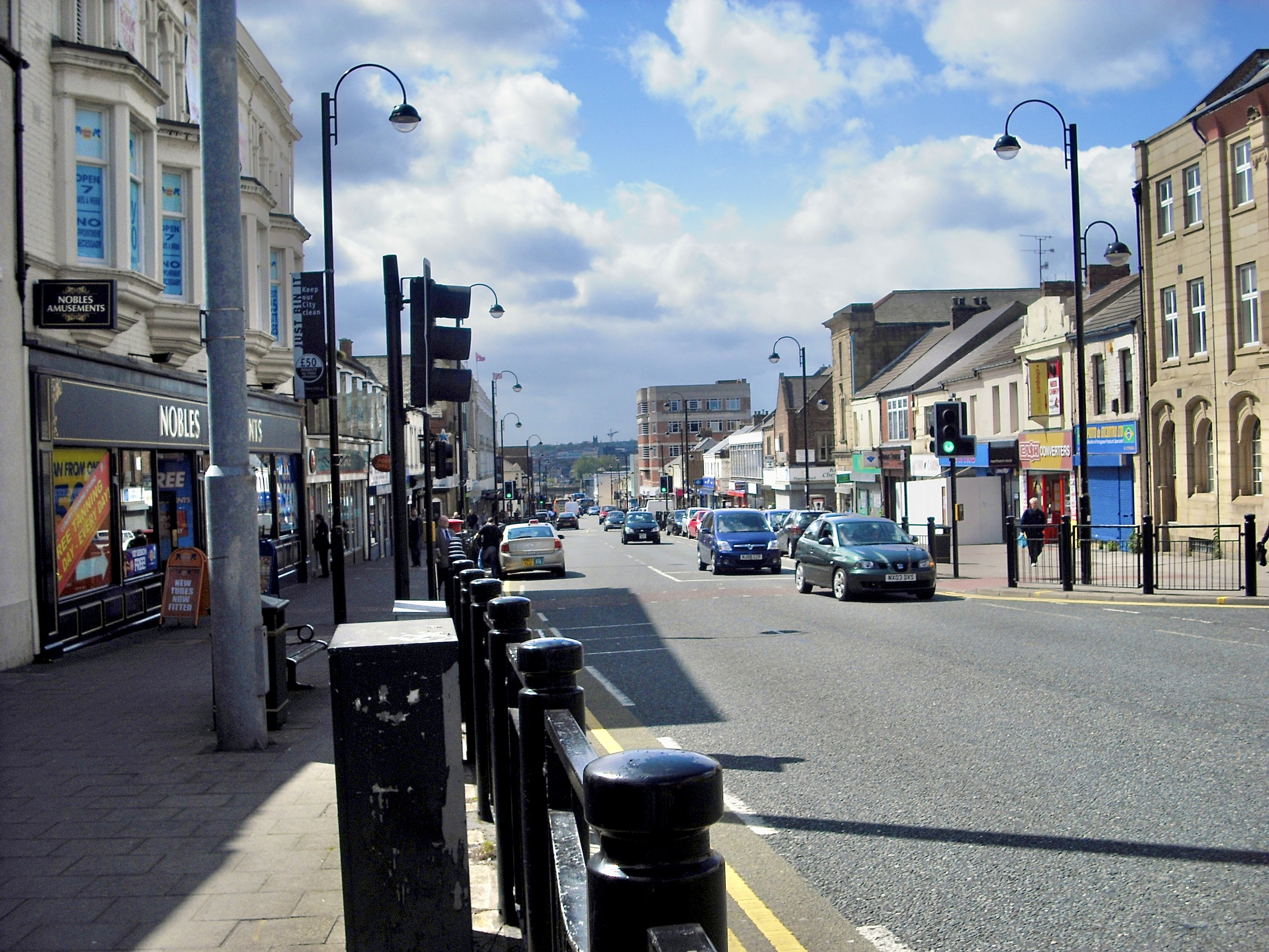 Shields Road, the main commercial street in Byker, Newcastle upon Tyne